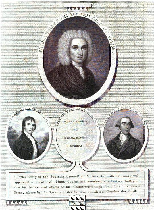 Portrait of William Hay (1695–1755), English politician and author. The smaller portraits show his sons Thomas and Henry.